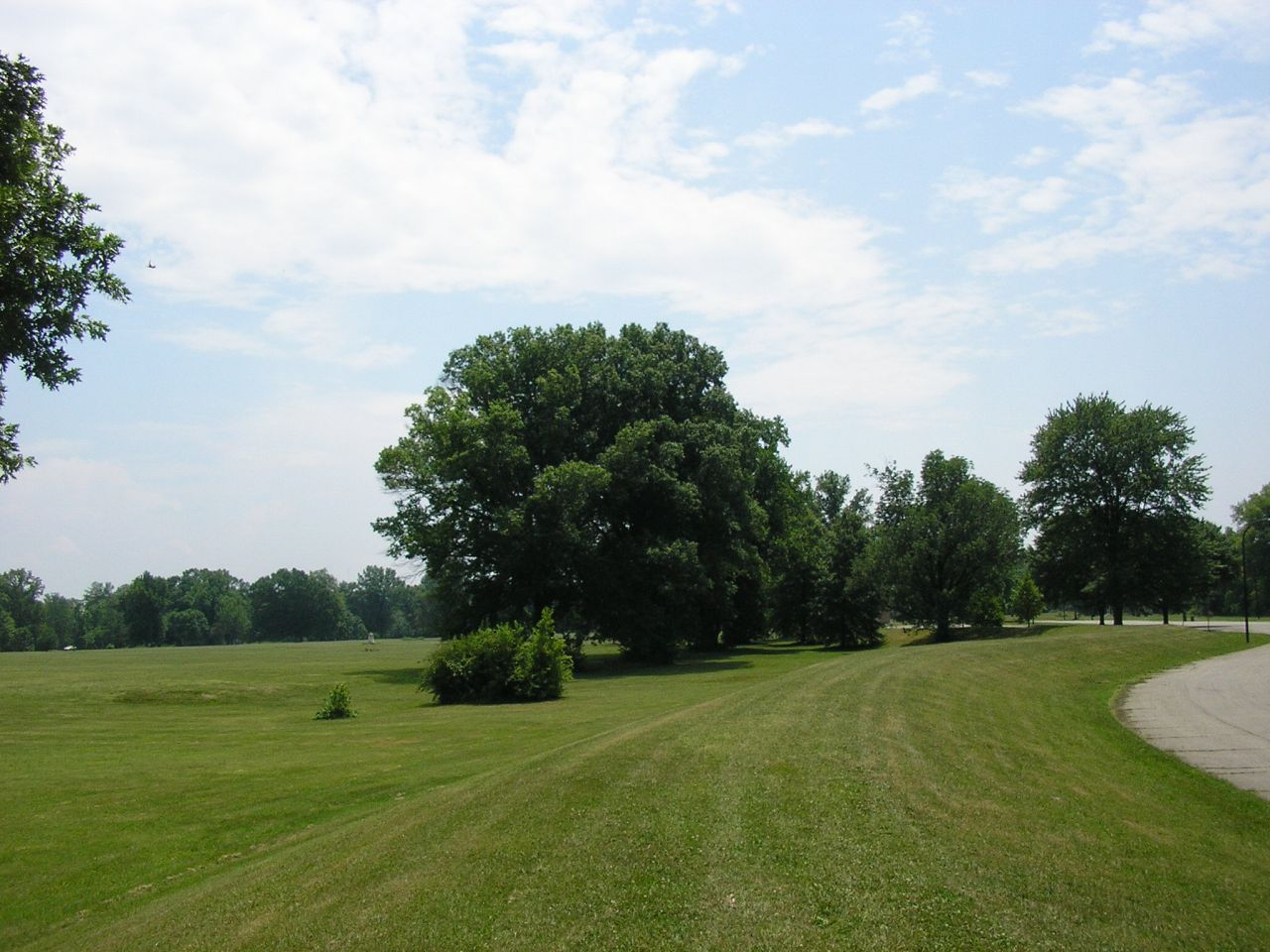 Shawnee Park's great lawn in Louisville, Kentucky